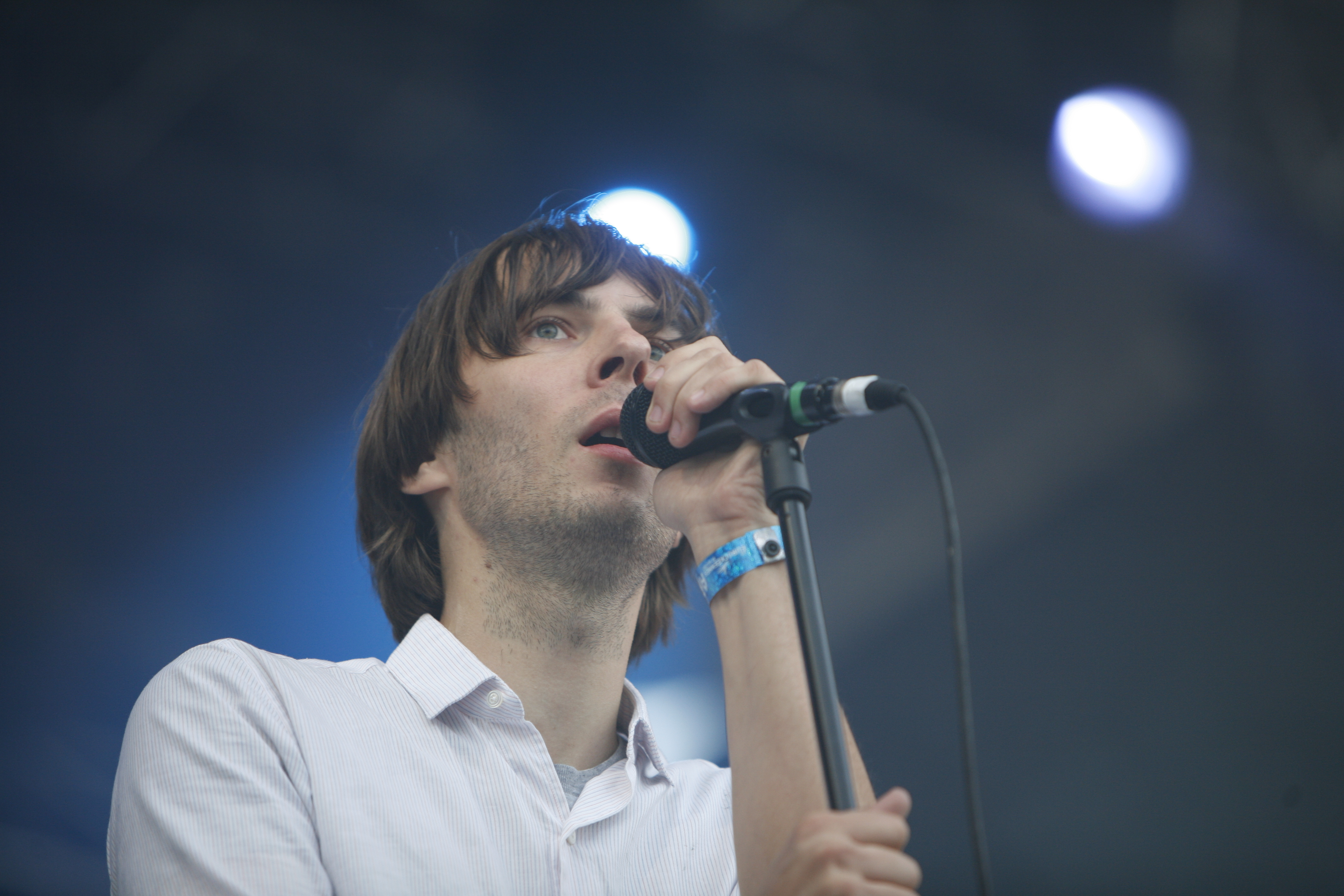 Phoenix at the Eurockéennes of 2007